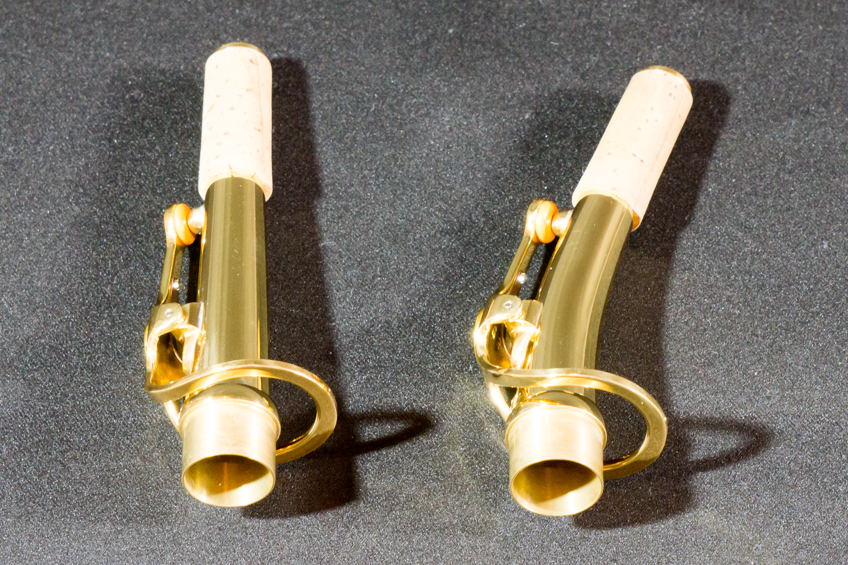 Wiki loves Music - Hamburg 2017: Musical Instruments up close: two necks of a soprano saxophone; on the left side a straight neck, on the right side a curved neck. The Instruments were lent by "Yamaha Music Europe"